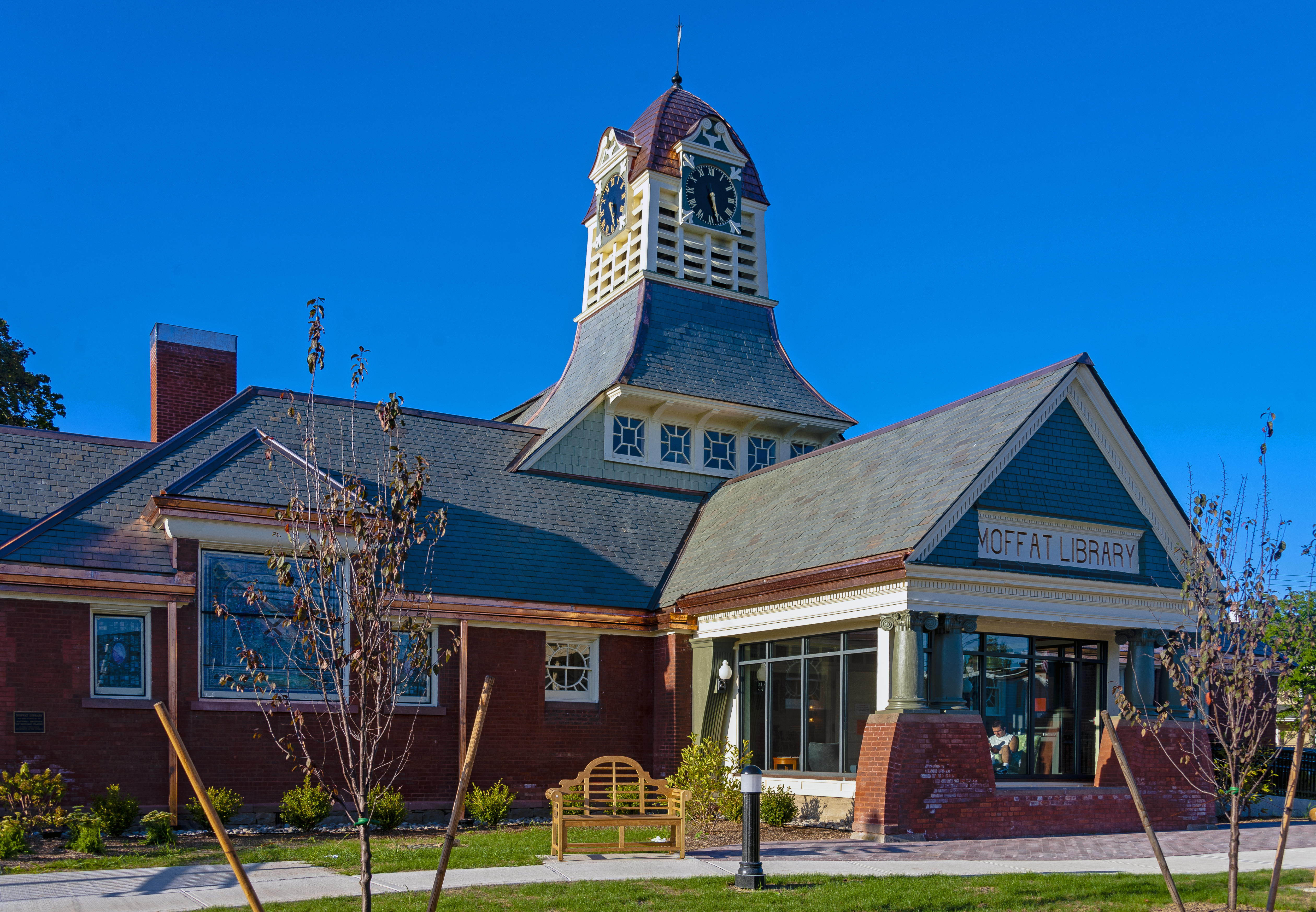 Moffat Library, Washingtonville, NY, USA, following its reopening after six years of renovation to repair damage done by Hurricane Irene.